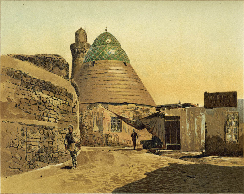 Second building of Juma mosque in Baku